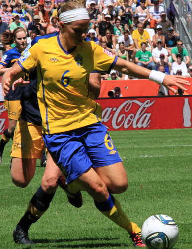 Sara Thunebro playing for Sweden in the 2011 FIFA Women's World Cup